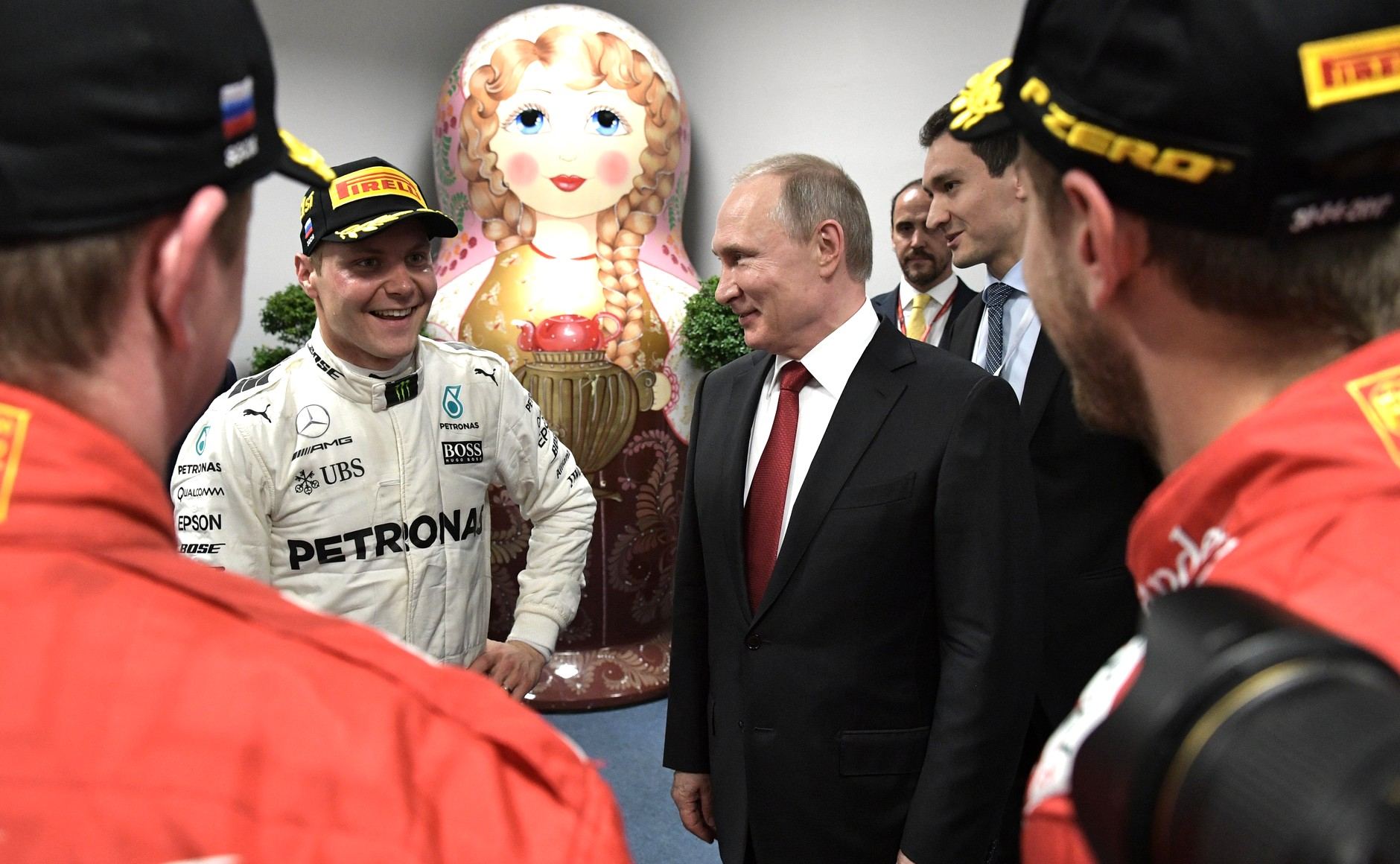 2017 Russian Grand Prix